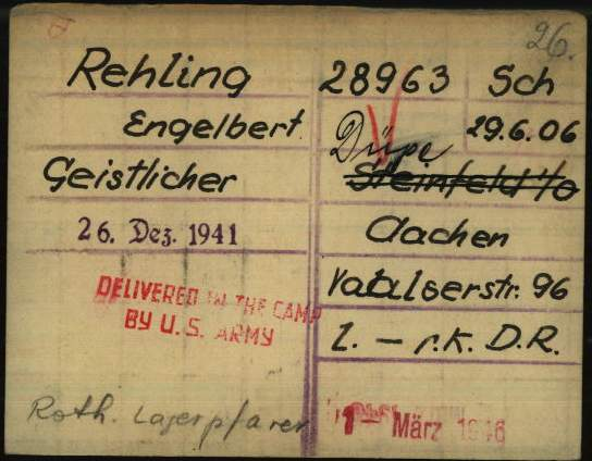 Registration card of Engelbert Rehling as a prisoner at Dachau Nazi Concentration Camp. Red stamp means he was liberated from Dachau by the U. S. Army.